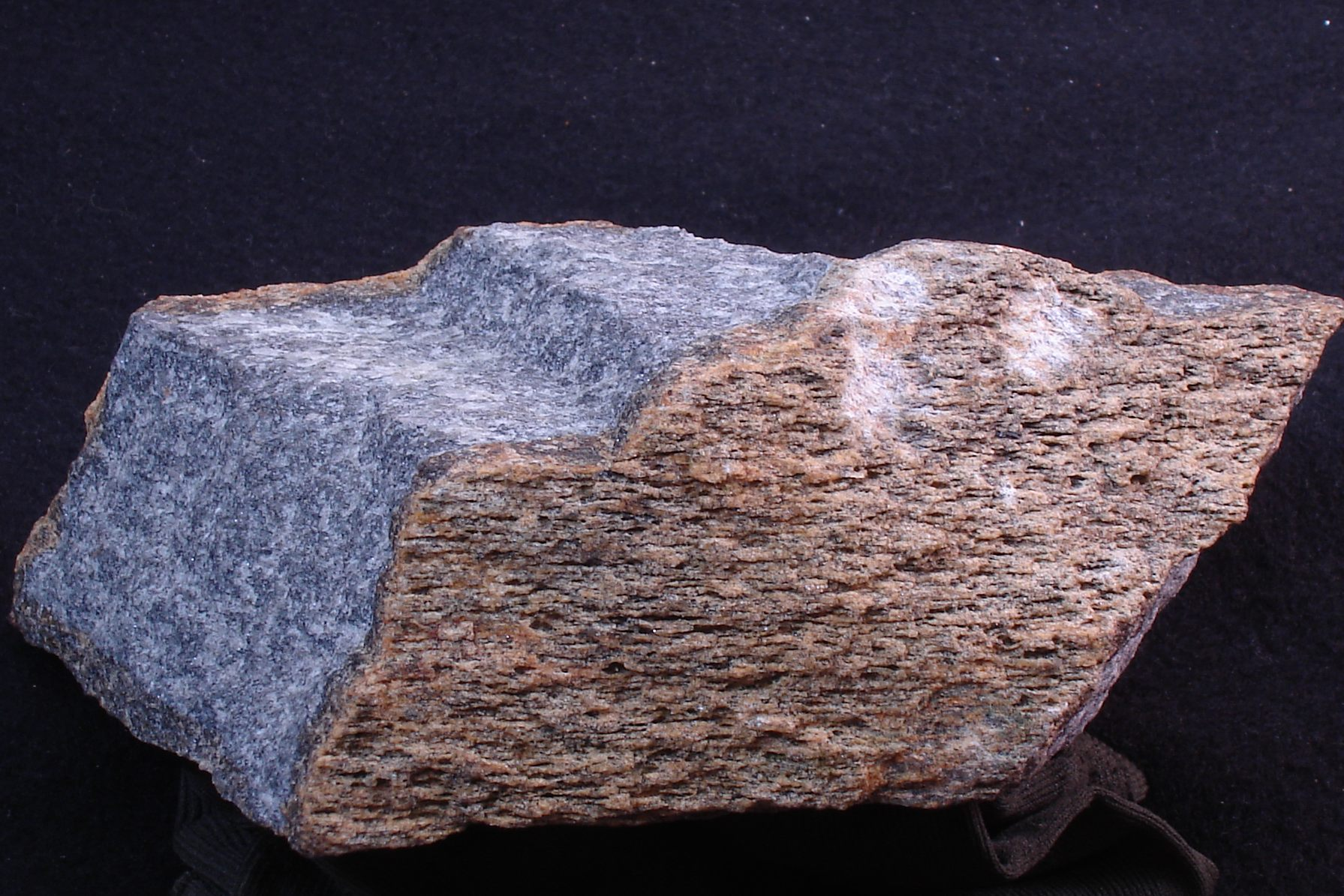 Medium grained granulite of metasedimentary origin. The weak foliation is shown in the wheathered surficial side Local: Rio de Janeiro city, Morro dois Irmãos Park, Leblon, Brazil Date:31-03-2006 Author:Eurico Zimbres Free for all use